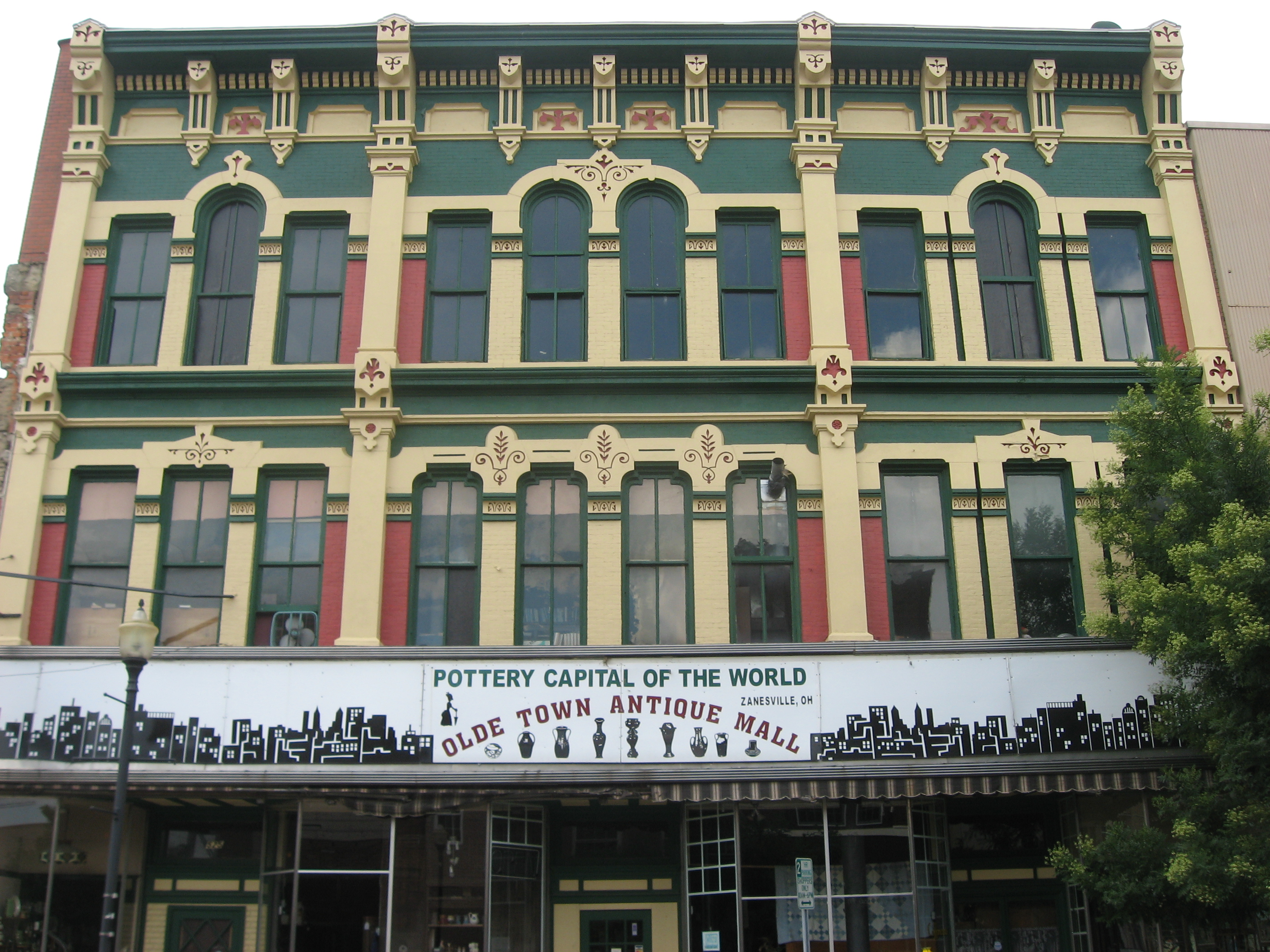 Front of the Black-Elliott Block, located at 525 Main Street (U.S. Route 40) in downtown Zanesville, Ohio, United States. Built in 1876, it is listed on the National Register of Historic Places.